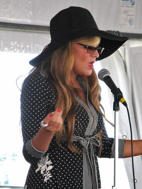 My photo of Ms Gardot taken at the Newport Jazz Festival 9 August 2008